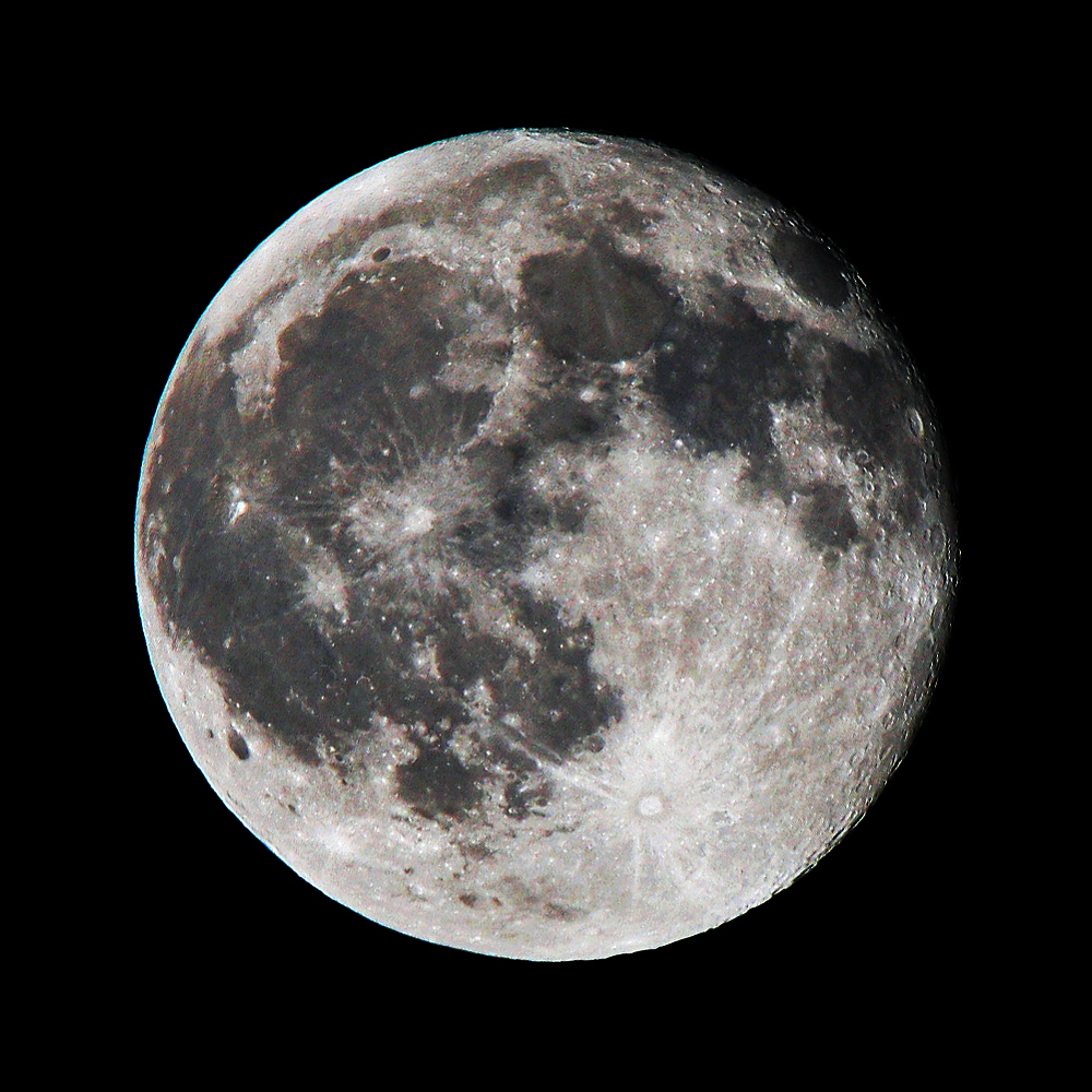 A gibbous Moon taken from Denmark on 2008-08-18, 00:20. Handhelt shot (Canon EOS 400D, Sigma AF 150-500mm f/5-6.3 DG APO HSM OS, 500 mm, f = 8, 1/400 sec., ISO 400). HDR technique used.